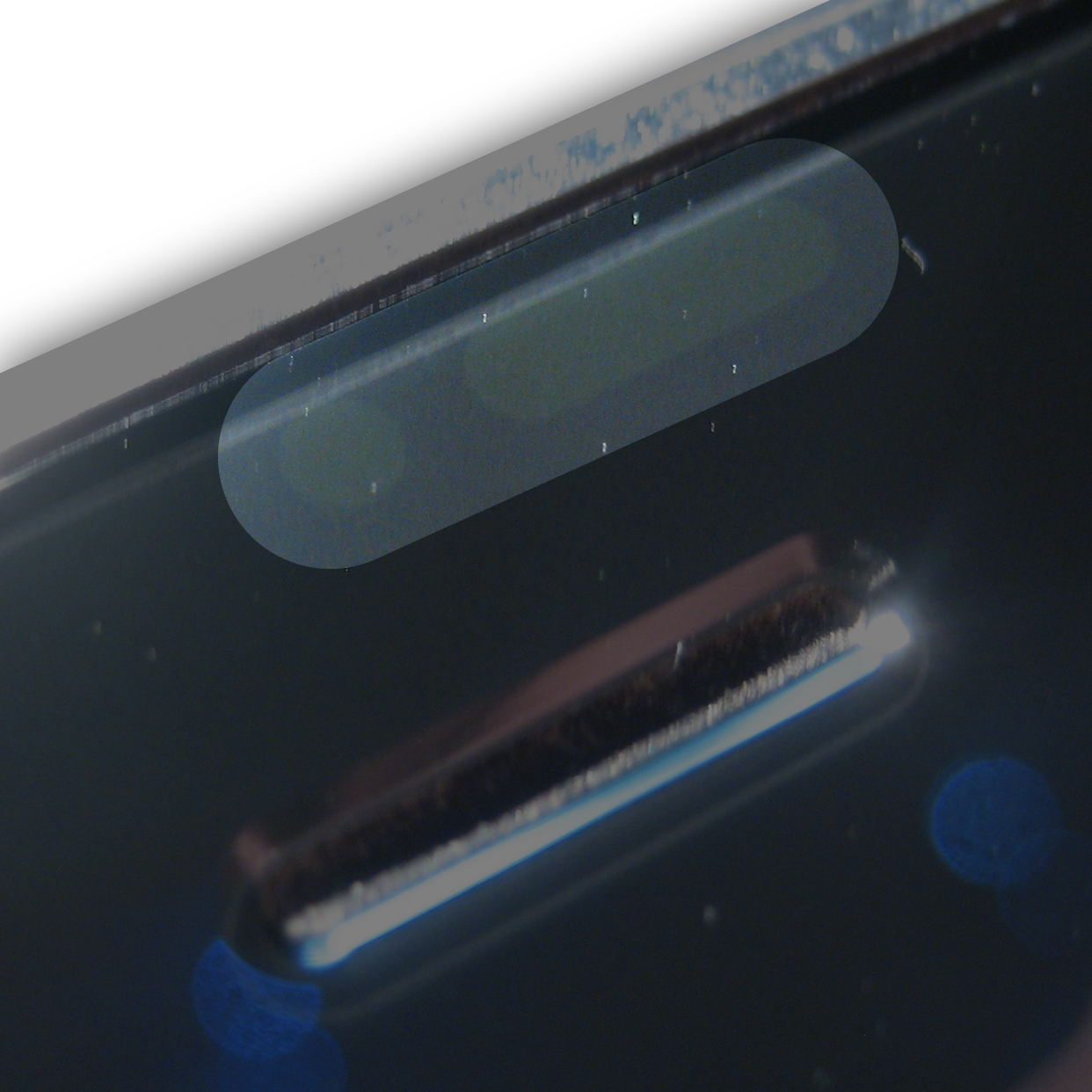 An image highlighting the sensors on the first-generation iPhone